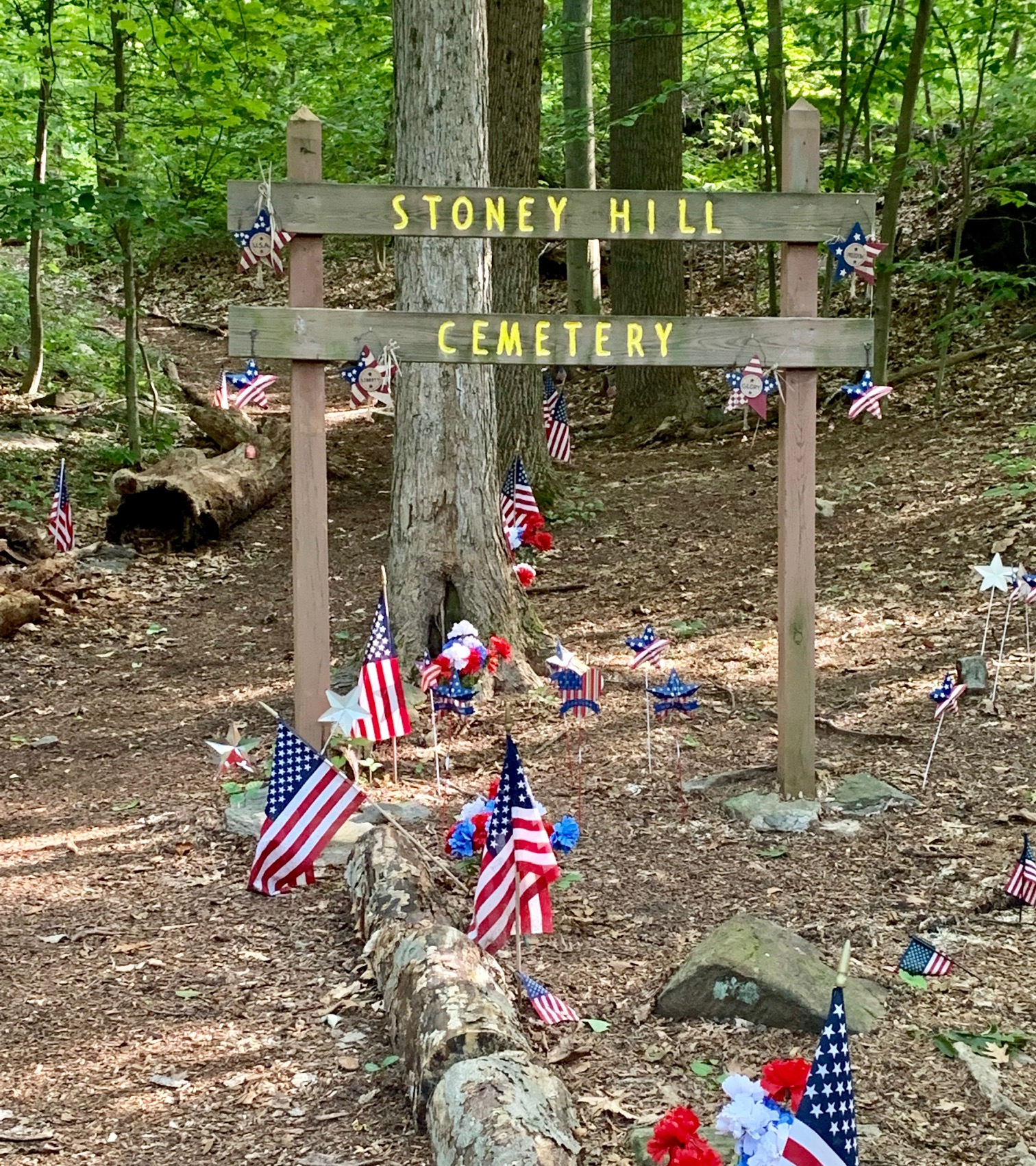 Stony Hill Cemetery - African American Heritage Trail site, Entrance Sign on Buckout Road